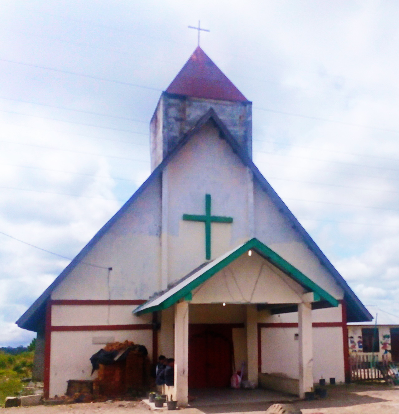 HKBP Hutagalung , Church in Hutagalung, Harian, Samosir